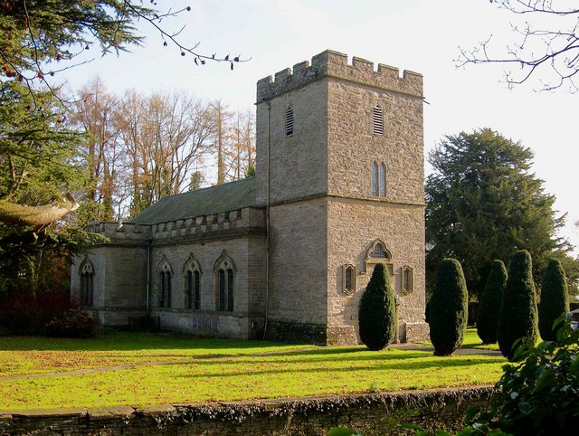 Shobdon Church, Herefordshire, near to Shobdon, Herefordshire, Great Britain. In parkland, adjacent to long-demolished Shobdon Court. Rebuilt 1752-56 by Hon. Richard Bateman, with the assistance of Henry Flitcroft. Strawberry Hill Gothick of the highest order.